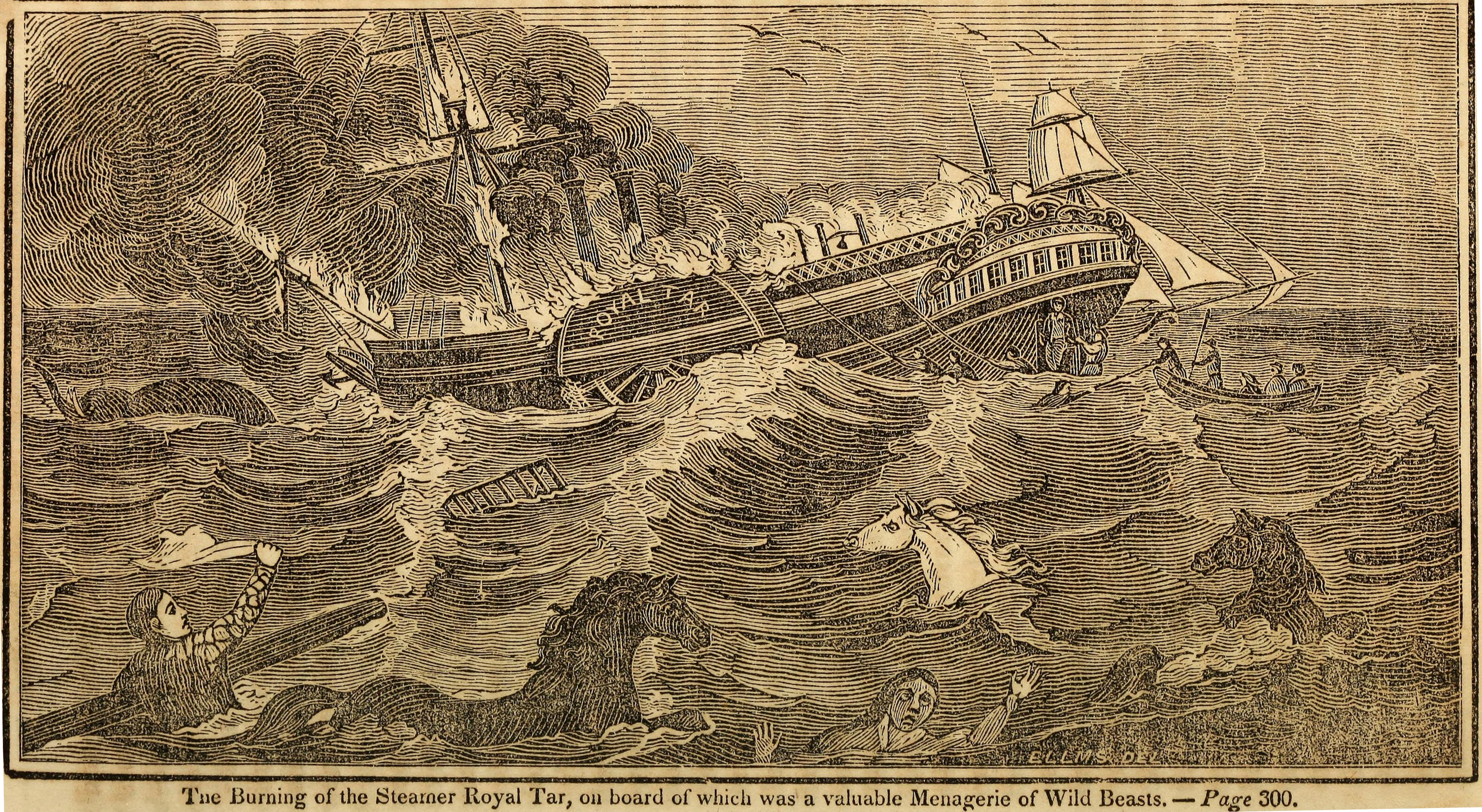 The passenger steamer Royal Tar burns in 1836. It was carrying a menagerie of animals